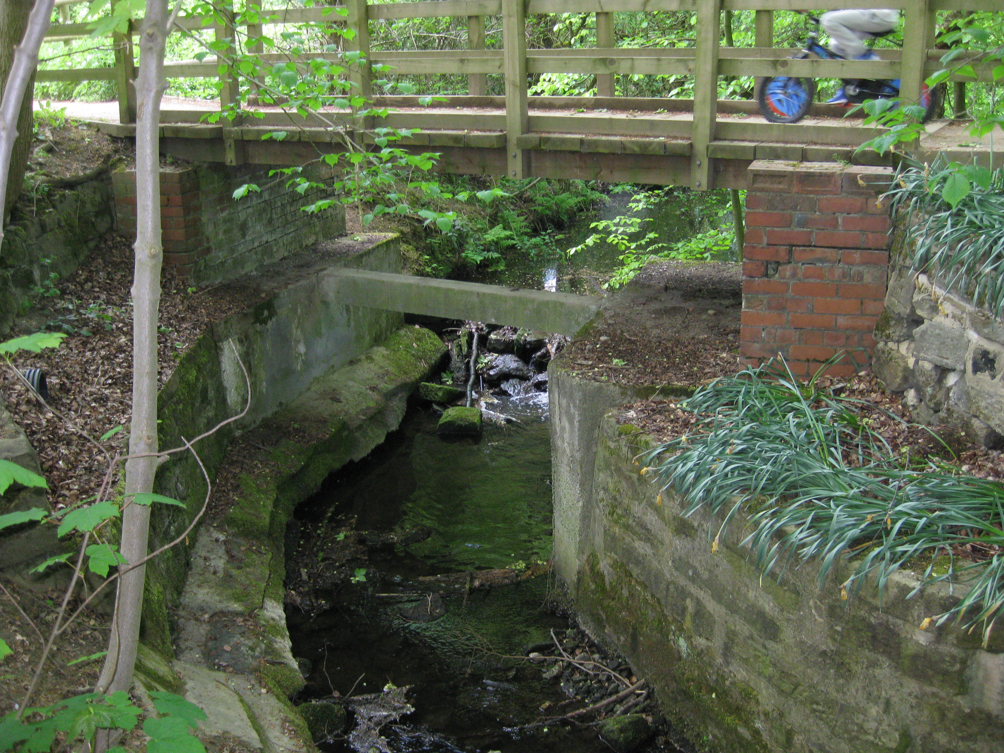 The outflow of the Wildfowl Lake at Golden Acre Park which is the start of Adel Beck. A wooden footbridge.